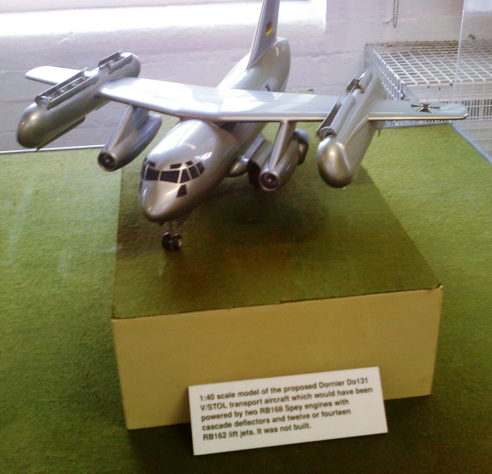 Dornier Do131 VSTOL with Rolls Royce engines